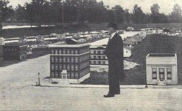 Tiny Town with local director of "Build Now" campaign, W. H. Johnson, that shows comparison of structures to a person